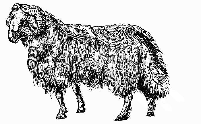 This is a 19th Century engraving of an eastern breed of fat-tailed sheep.